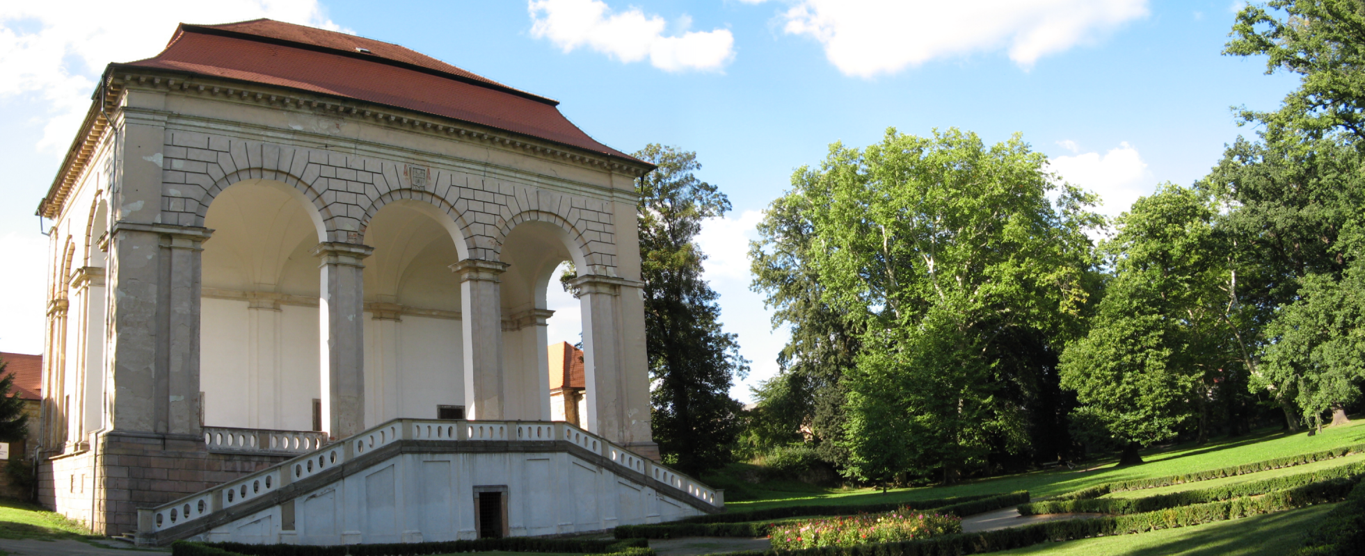 Libosad park with Wallenstein loggia near Jičín (Czech Republic)